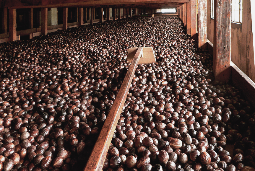 Nutmeg processing plant in Gouyave, Grenada